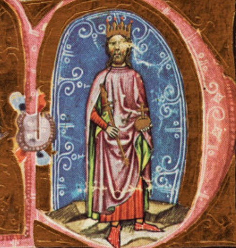 Béla IV of Hungary